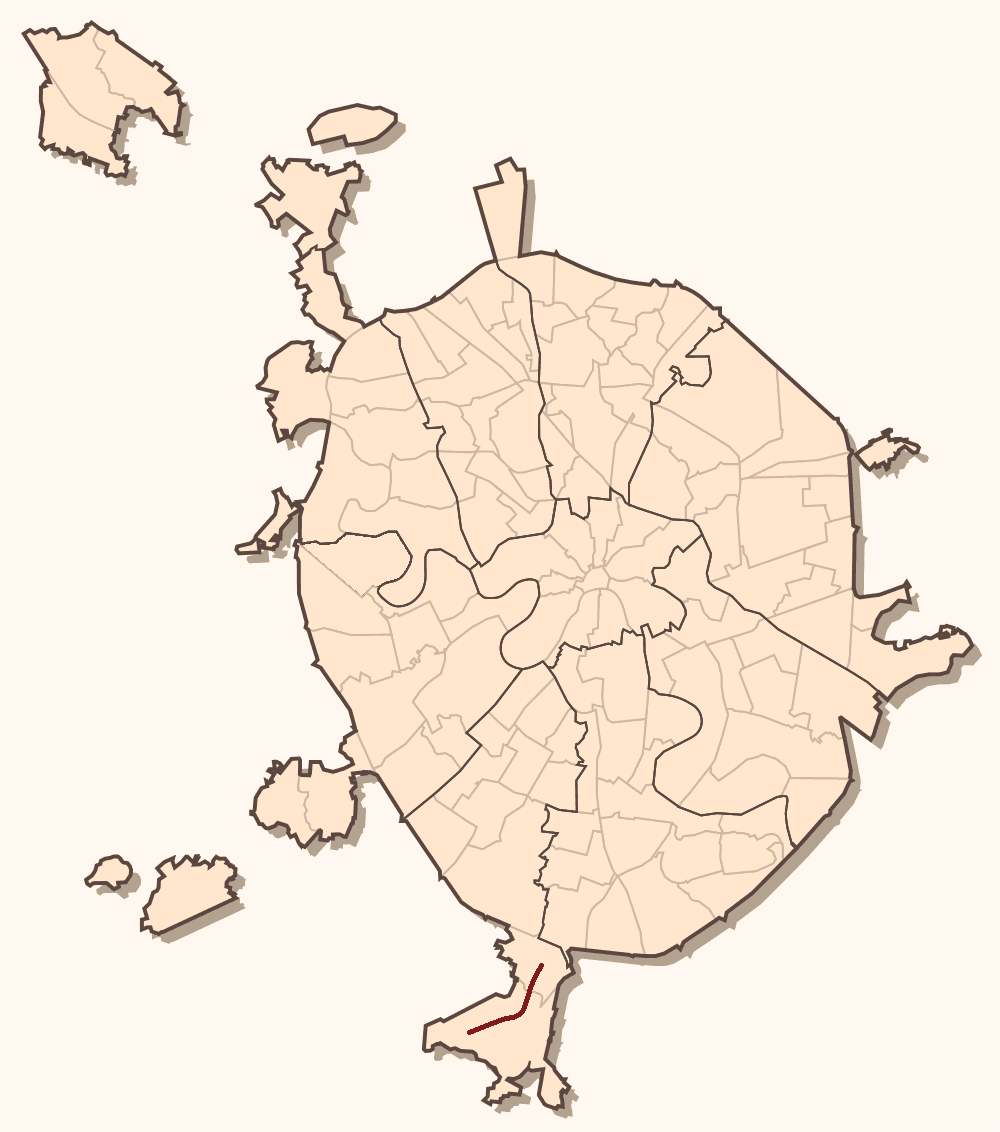 Map of Butovskaya line of Moscow Metro on Moscow map